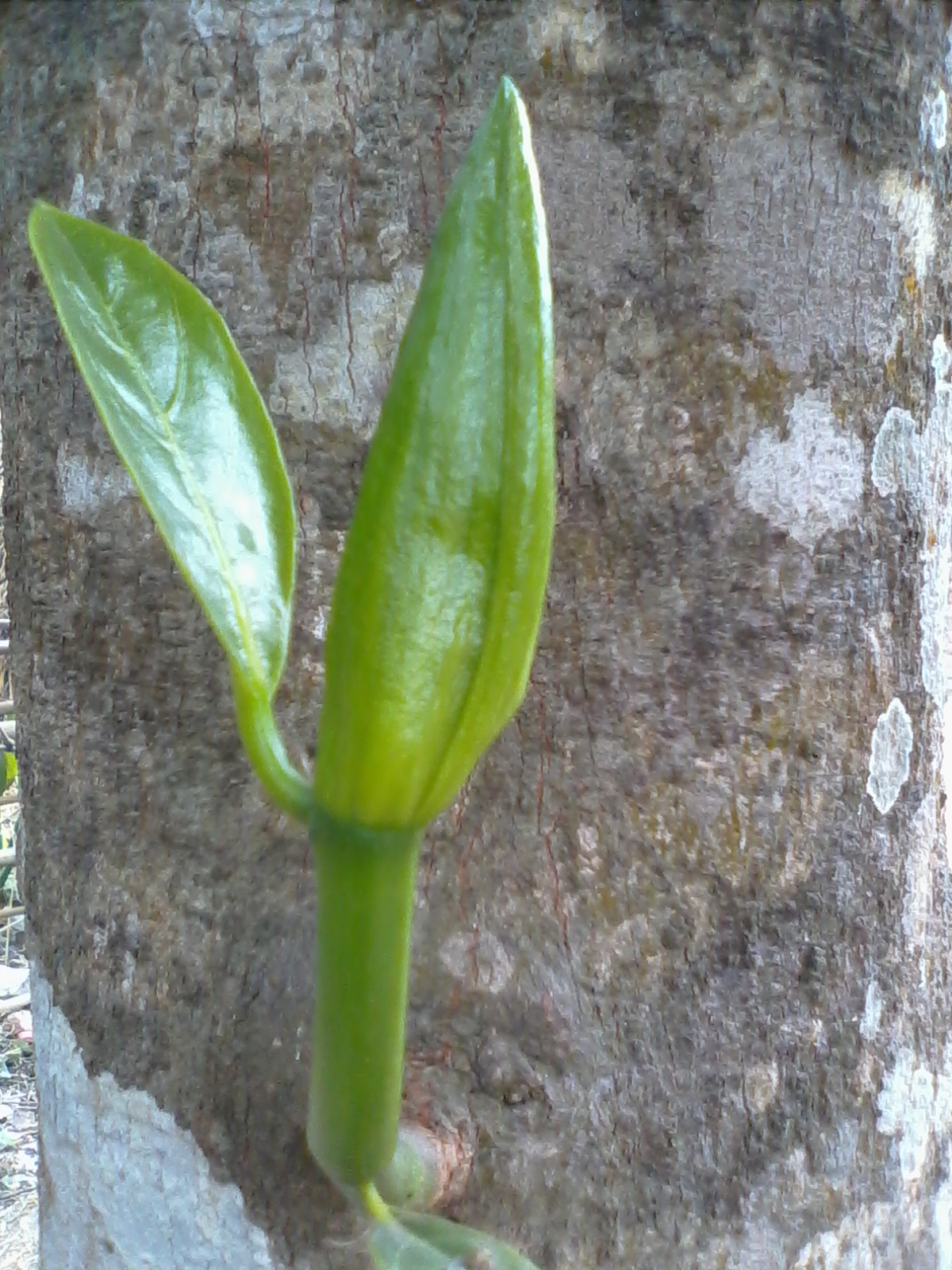 Jack fruit is the biggest fruit.